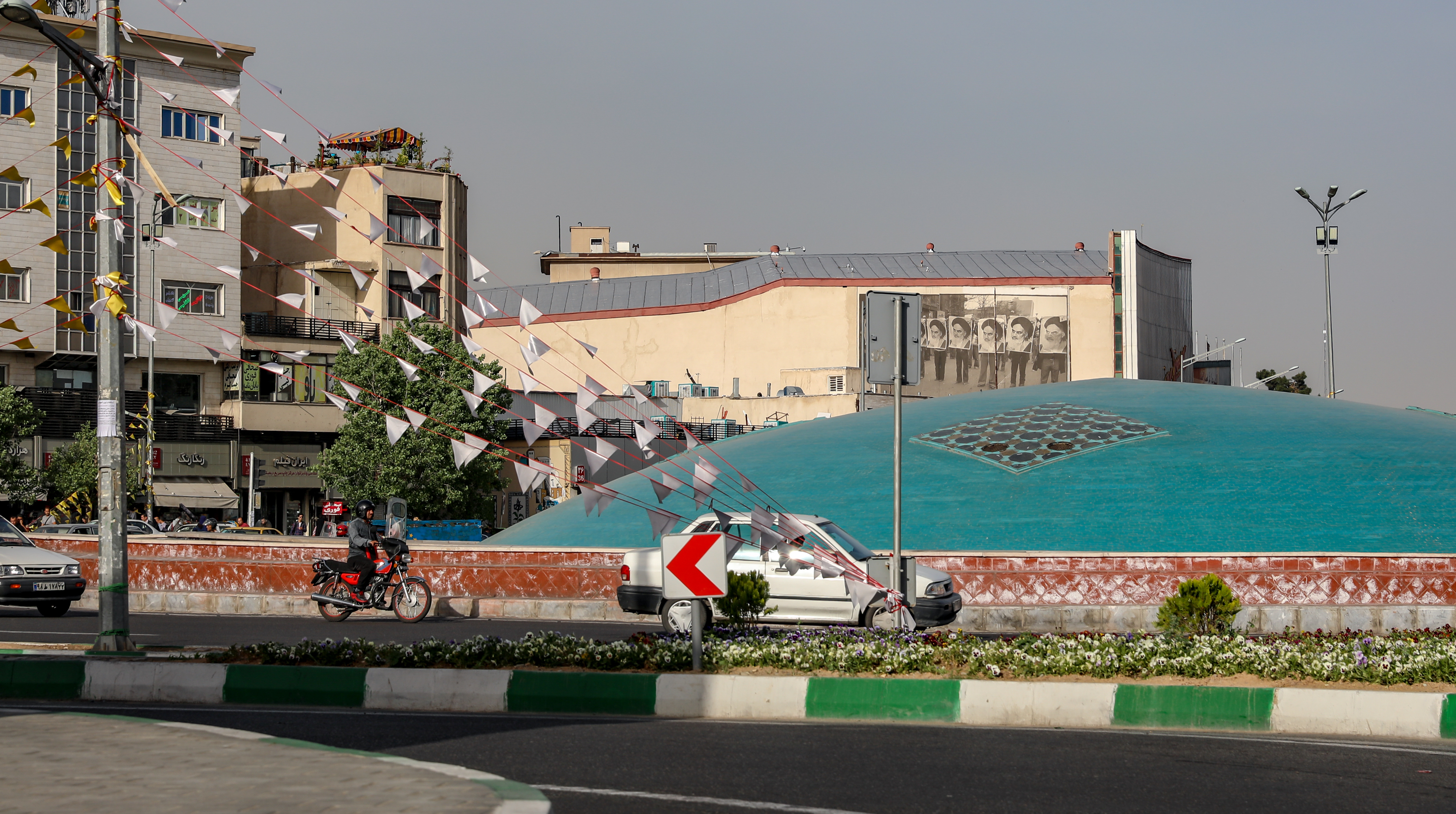 Enghelab Square, Tehran